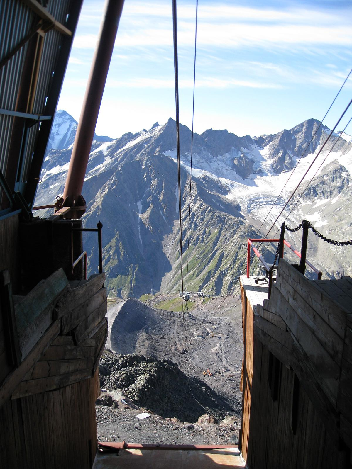 Mountain station of cableway in the russian Caucasus.